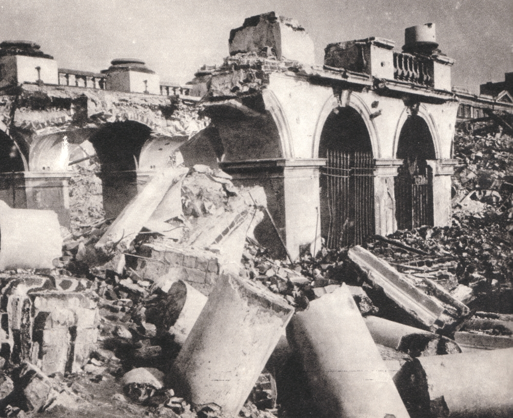 The Saski Palace Warsaw, destroyed by Germans in 1944